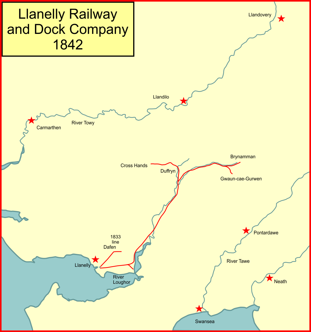 System map of the Llanelly Railway and Dock Company, Wales, in 1842